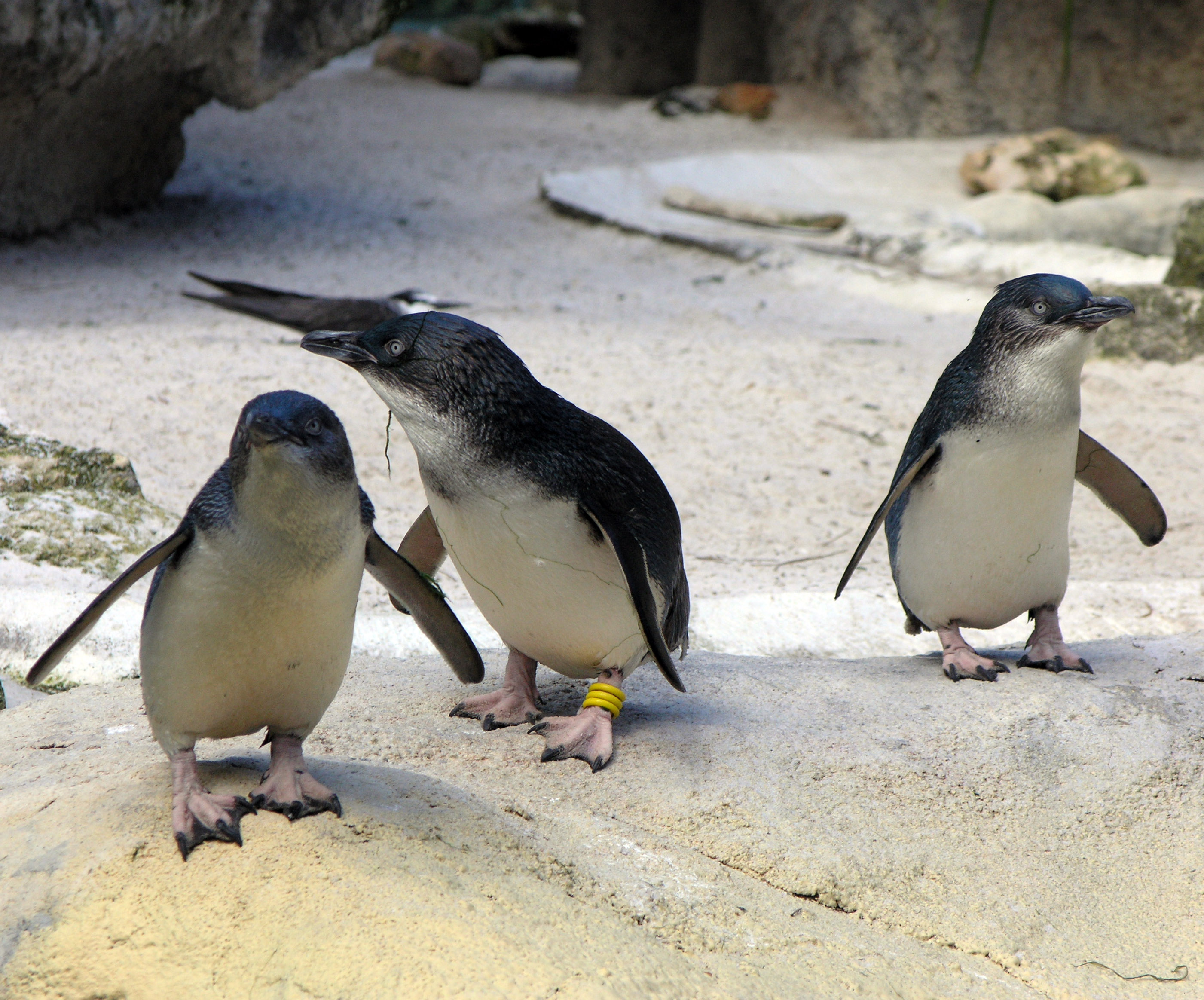 Little Penguin at Perth Zoo in Sept 05.